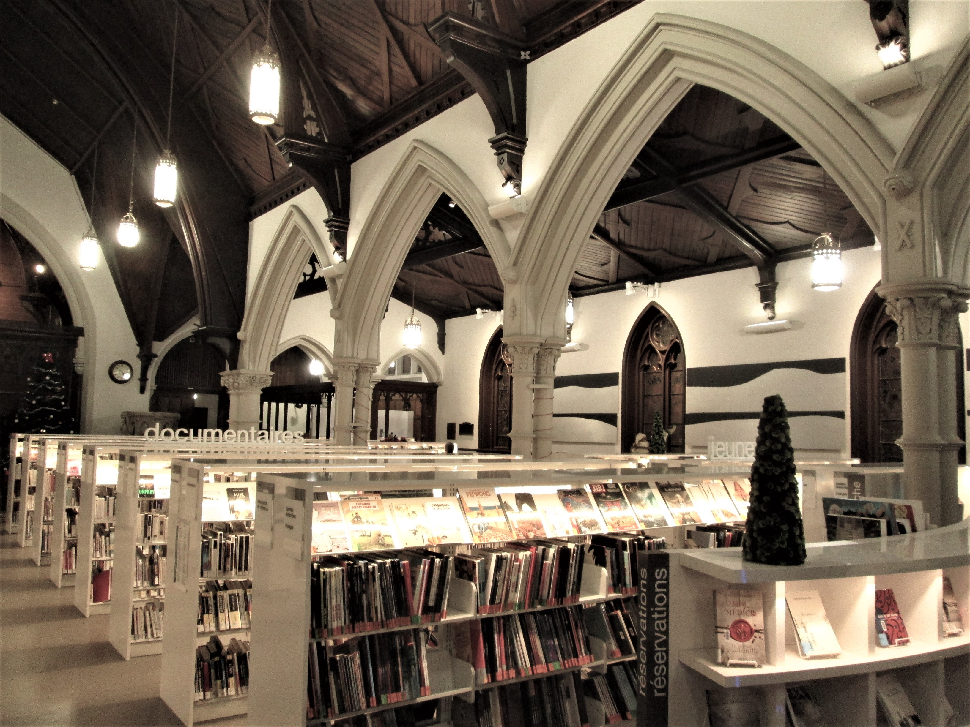 Interior of public library Claire-Martin in the old Anglican church St. Matthew of Quebec City, Canada